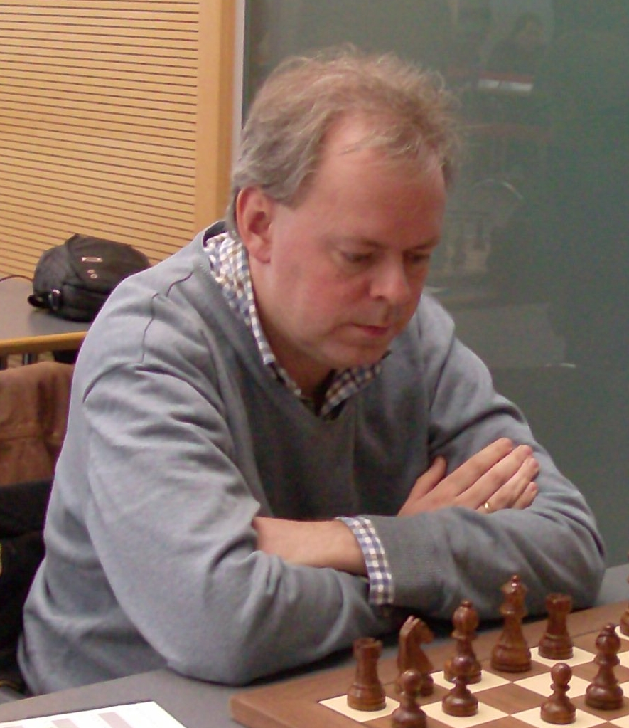 Jonny Hector, chess grandmaster from Sweden